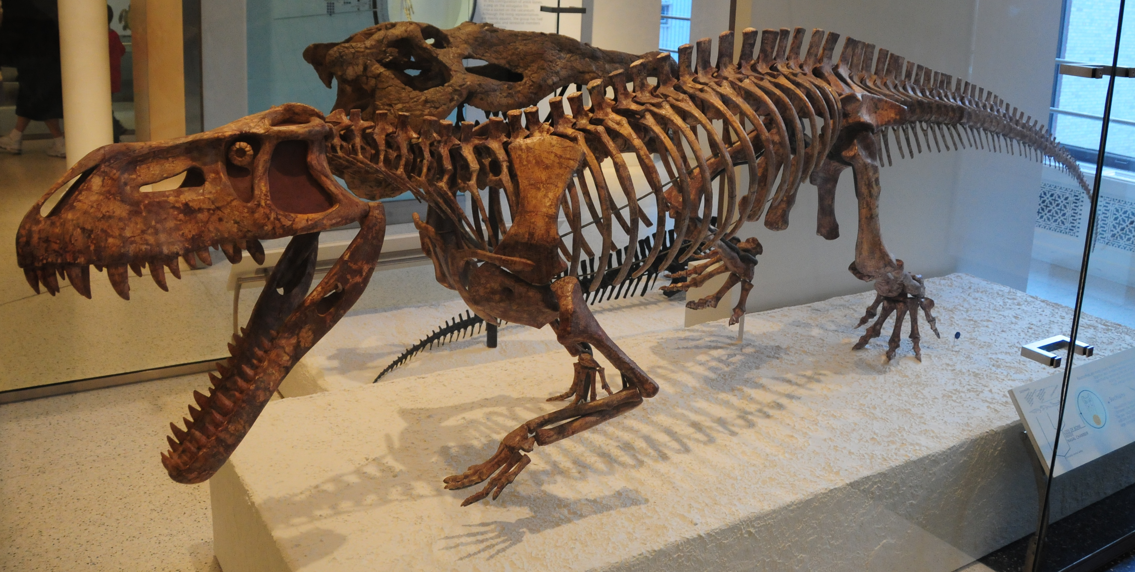 Prestosuchus chiniquensis, from the late Triassic (approx 250mya). American Museum of Natural History.